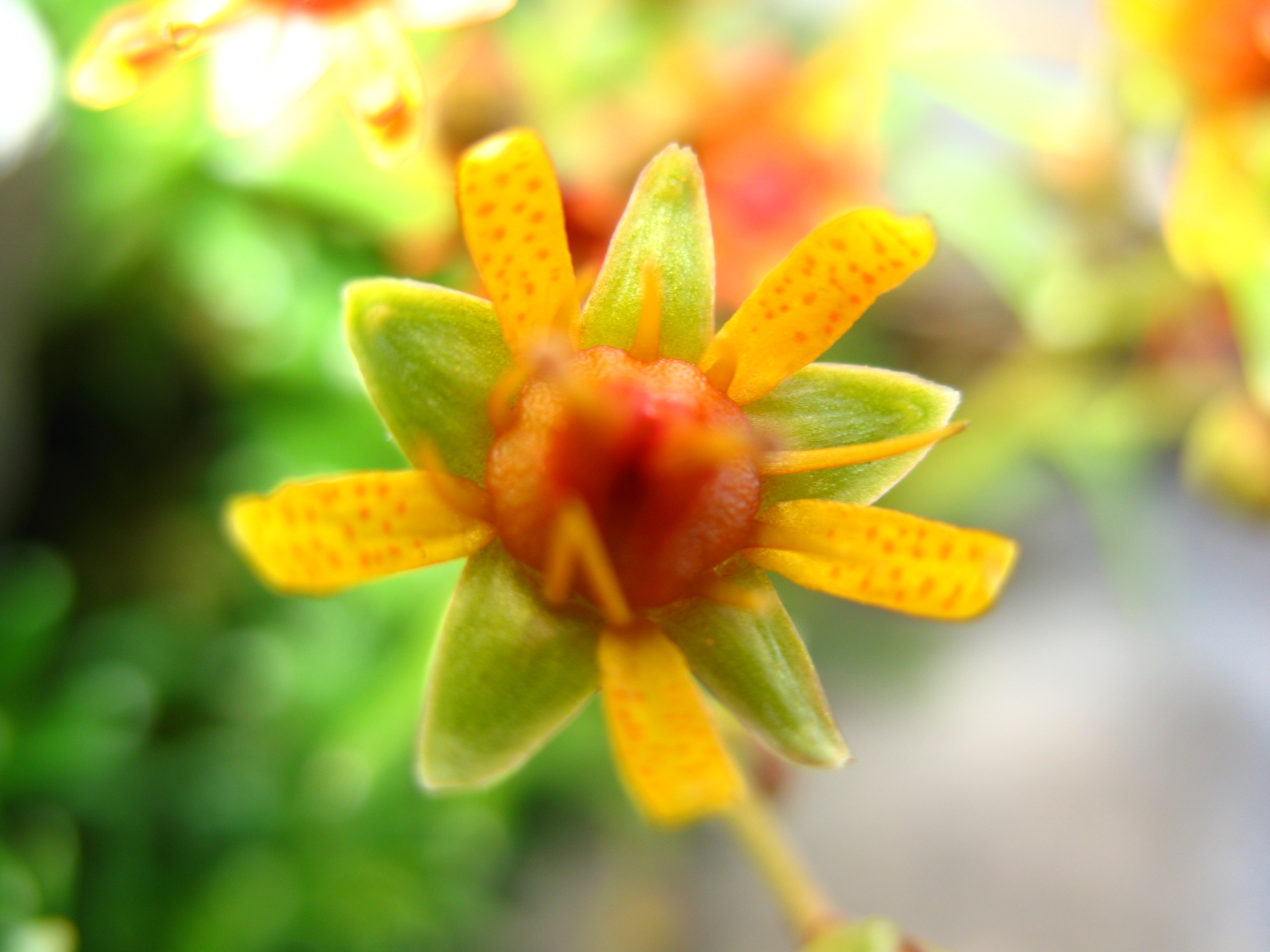 Yellow Mountain Saxifrage (Saxifraga aizoides) on Oberberghorn, Schynige Platte, Switzerland